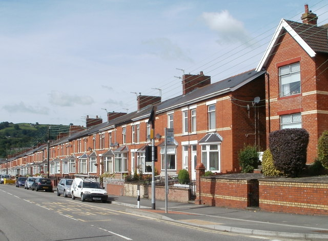 Pengam Road houses, Ystrad Mynach, near to Ystrad Mynach, Caerphilly/Caerffili, Great Britain. Viewed from opposite Davies Street. There is a long row of houses on the north side of the street ; on the camera side is Lidl. Link